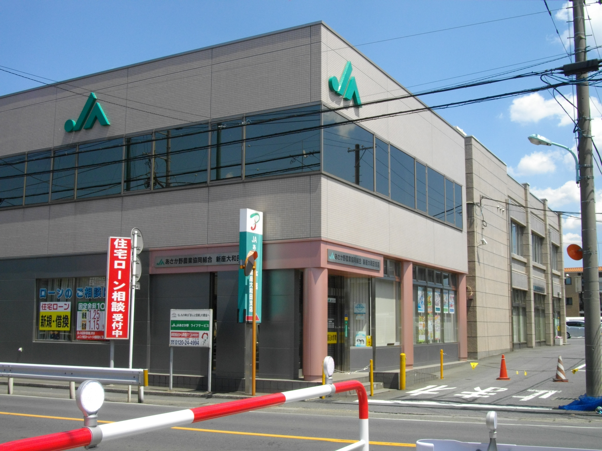 JA Asakano Headquarters